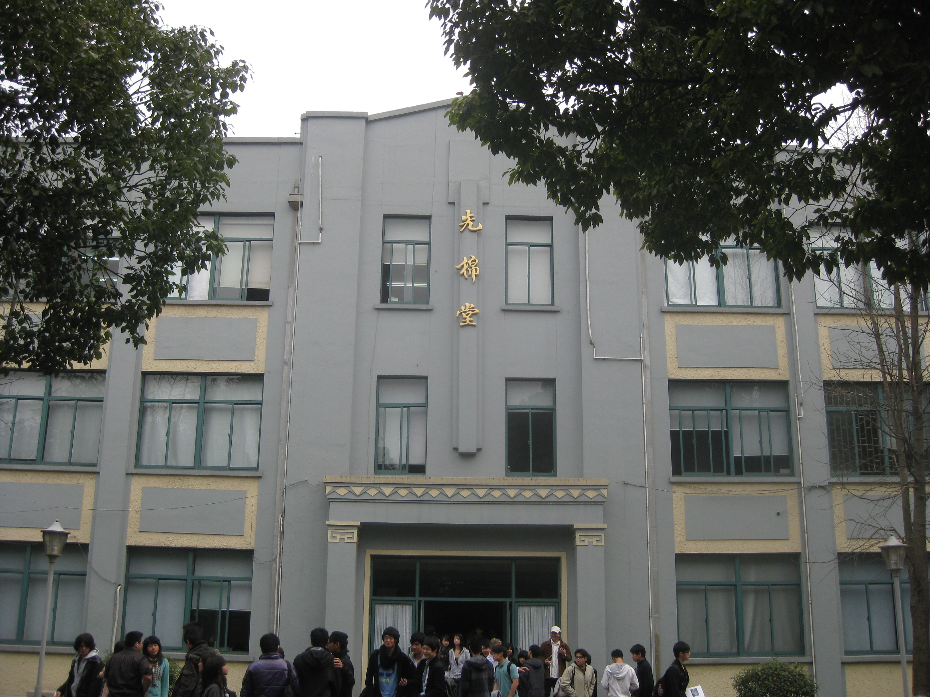 A Picture of XMT.